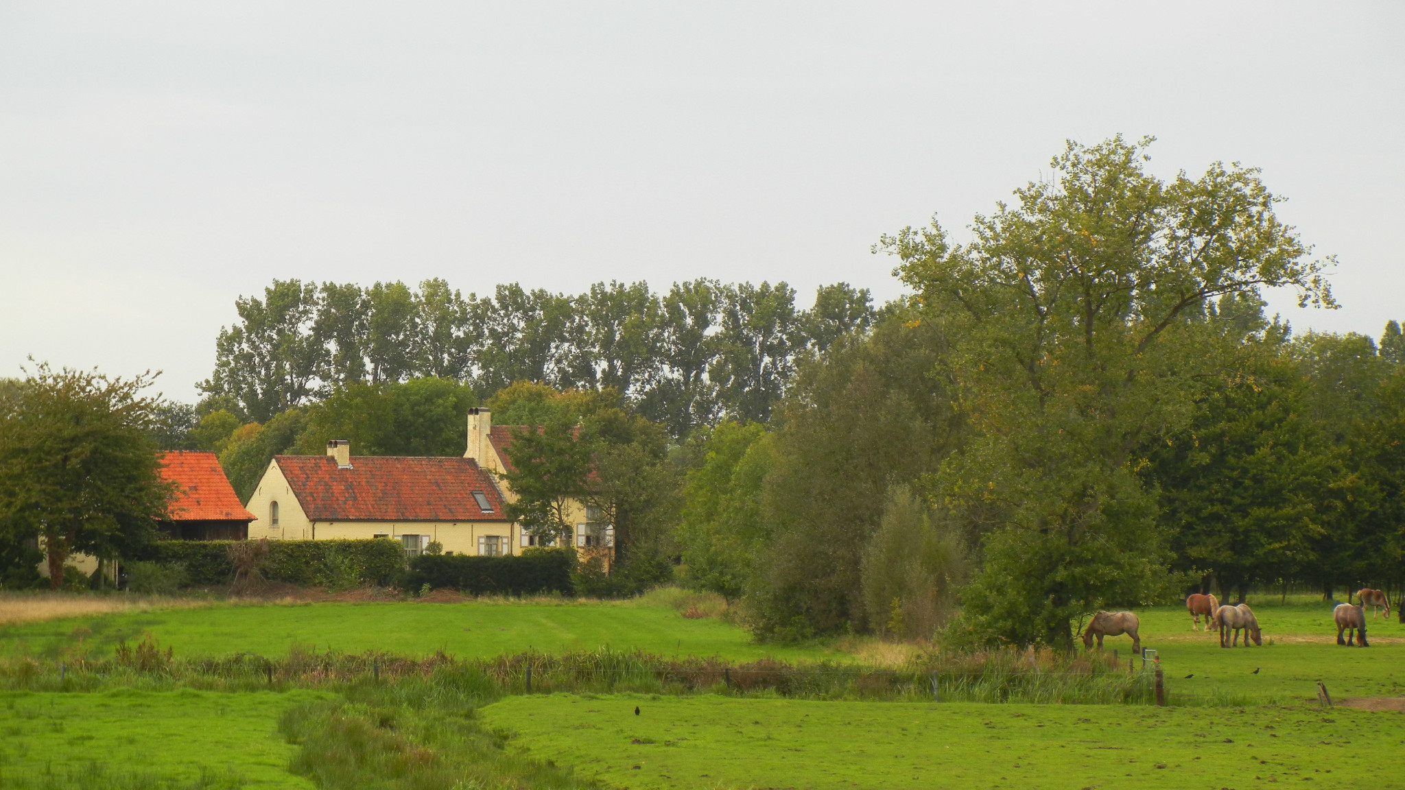 Spanish farm located in nature reserve 'het Mechels Broek'